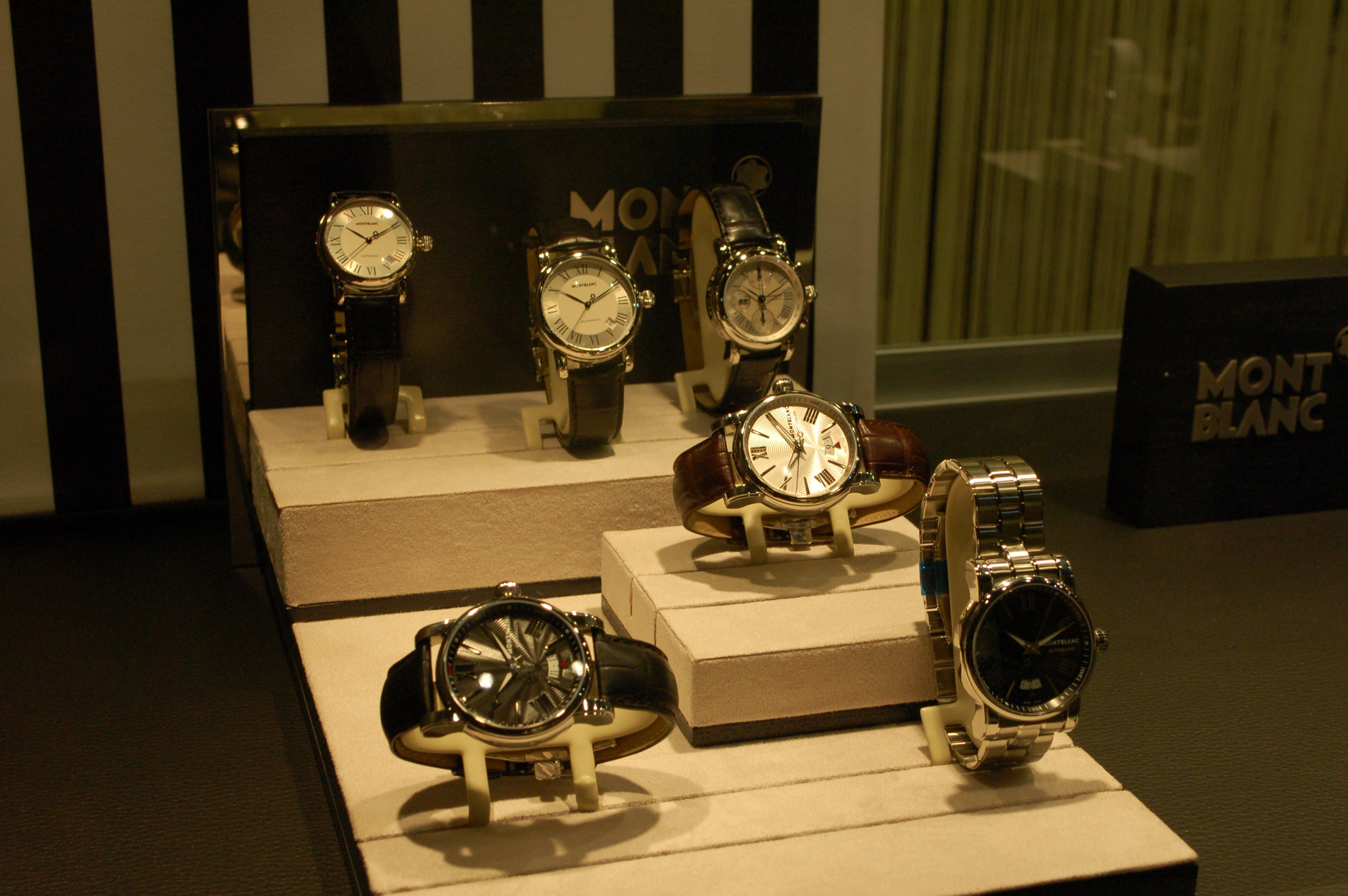 Various Montblanc watches on display at Athina Fair 2009.